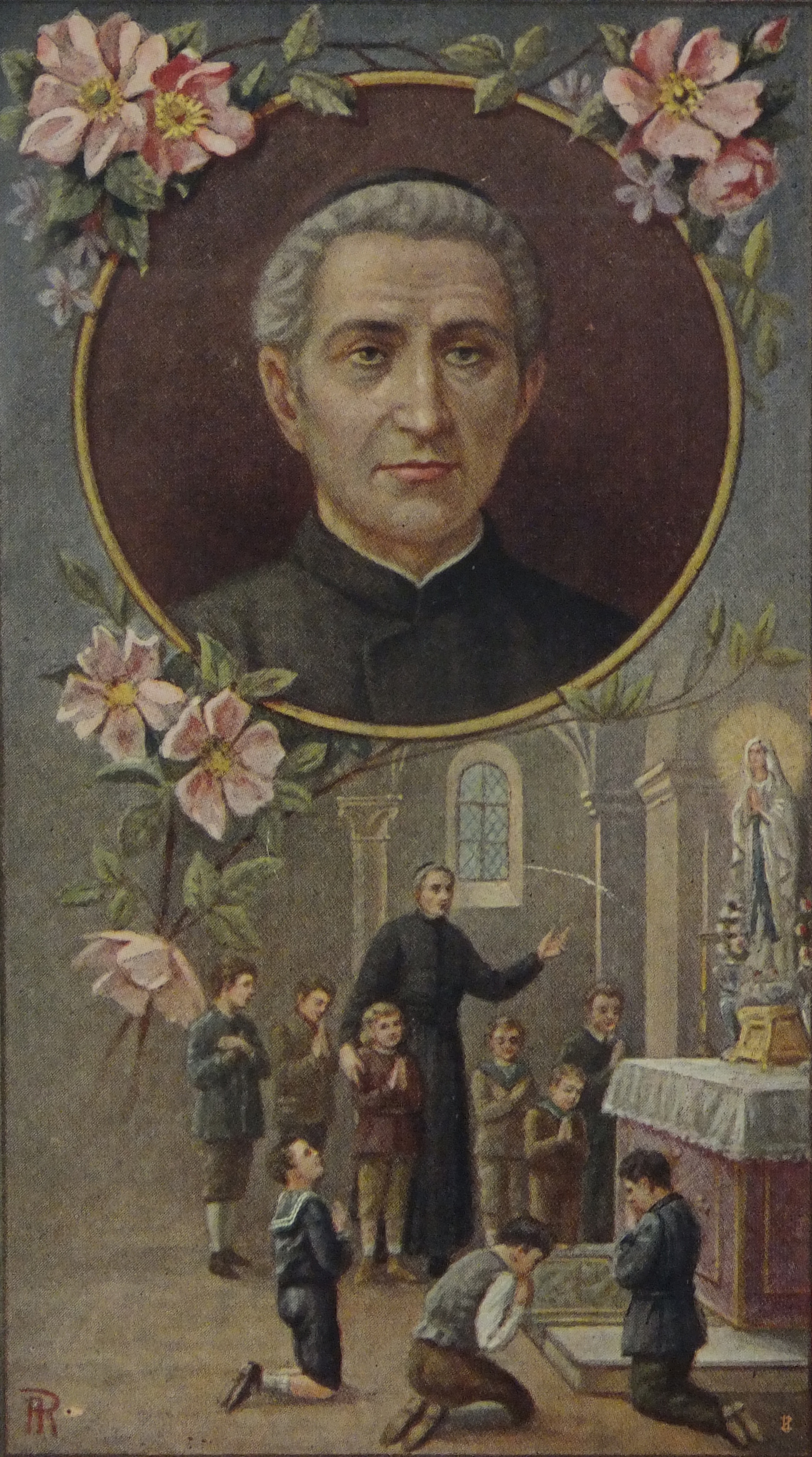 Lodovico Pavoni in a holy card dating beginning 1900